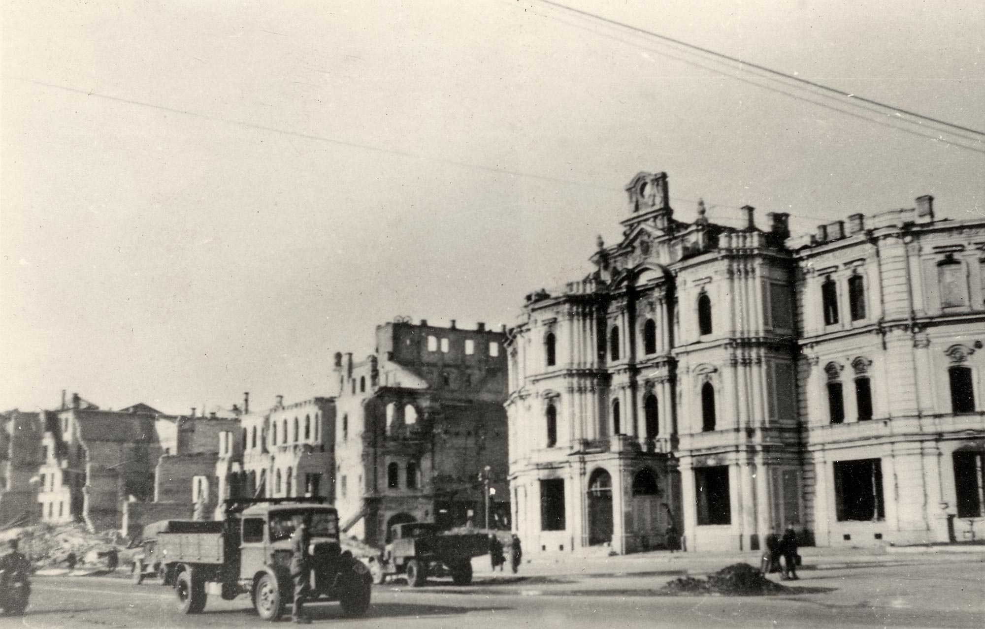 Kyiv City Duma in the summer of 1941.